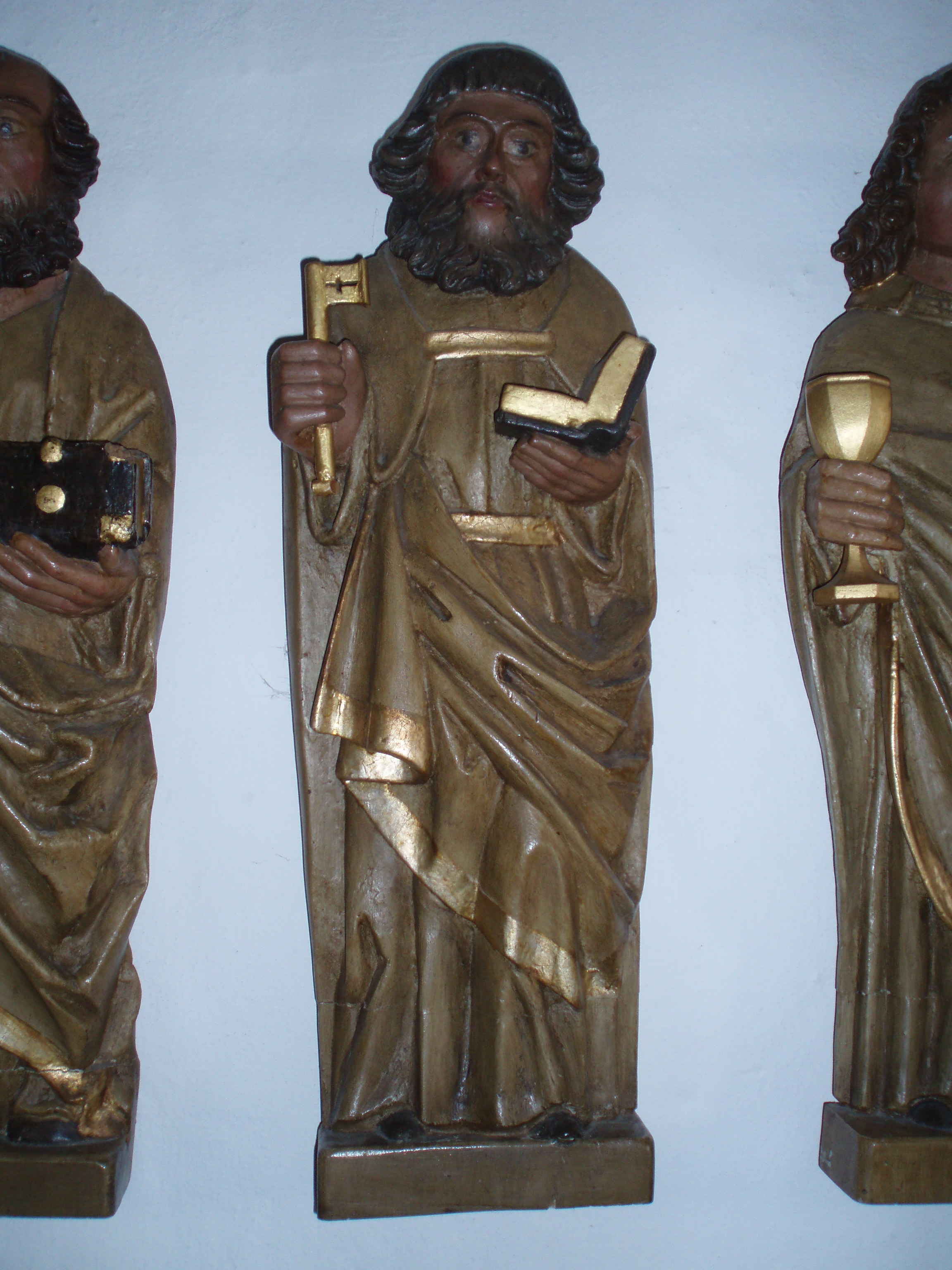 Jelling Kirke in Jelling, Denmark. The apostle Peter.